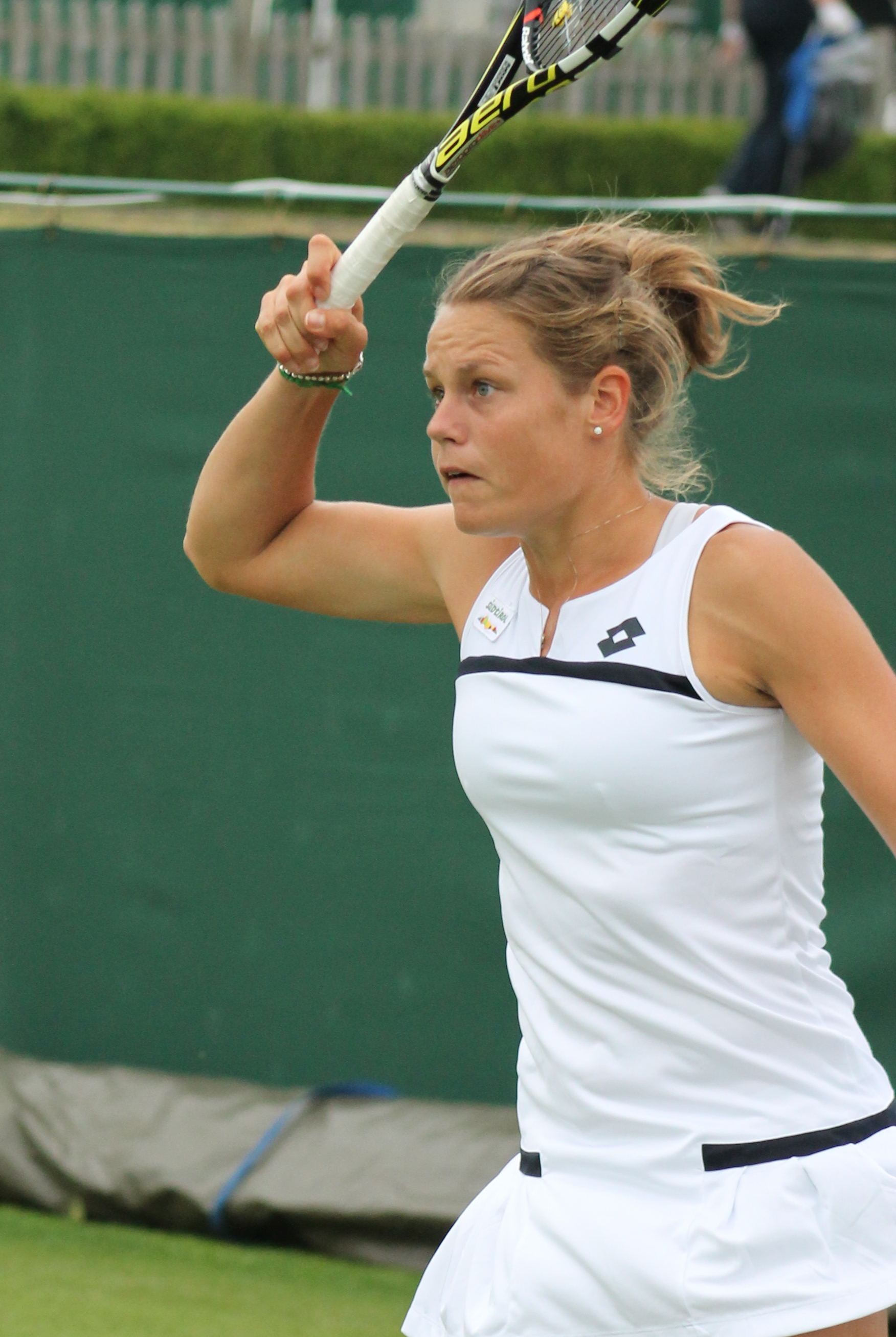 Karin Knapp, 2013 Wimbledon Qualifying Tournament